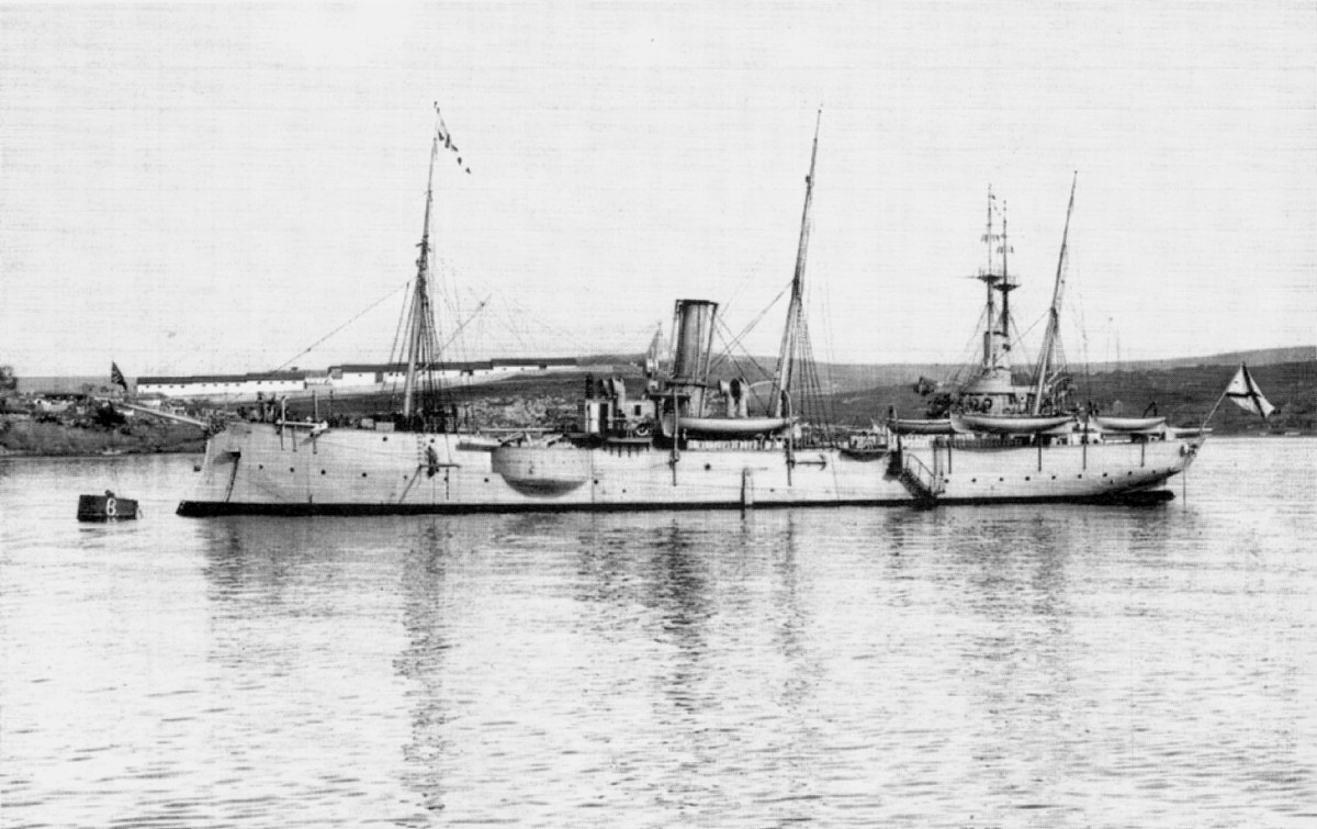 Imperial Russian gunboat Donets.